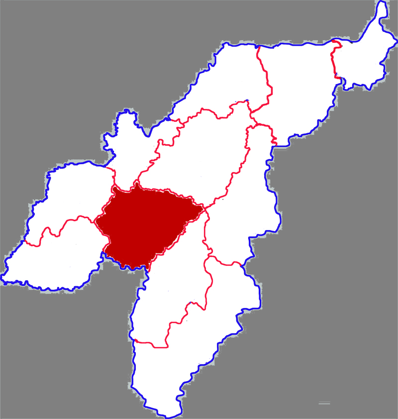 Location of Pingyuan county in Dezhou City, China